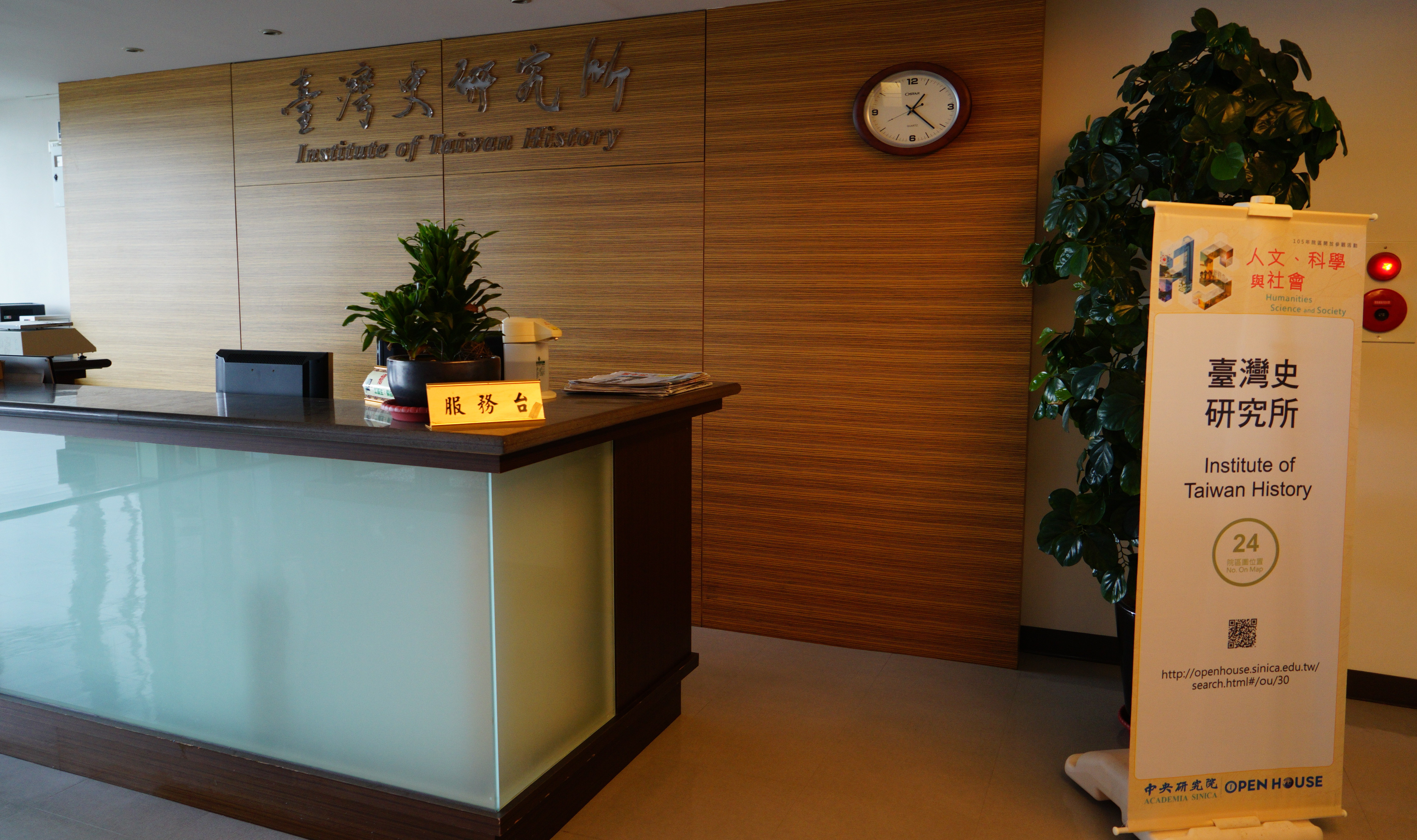 Institute of Taiwan History, Academia Sinica